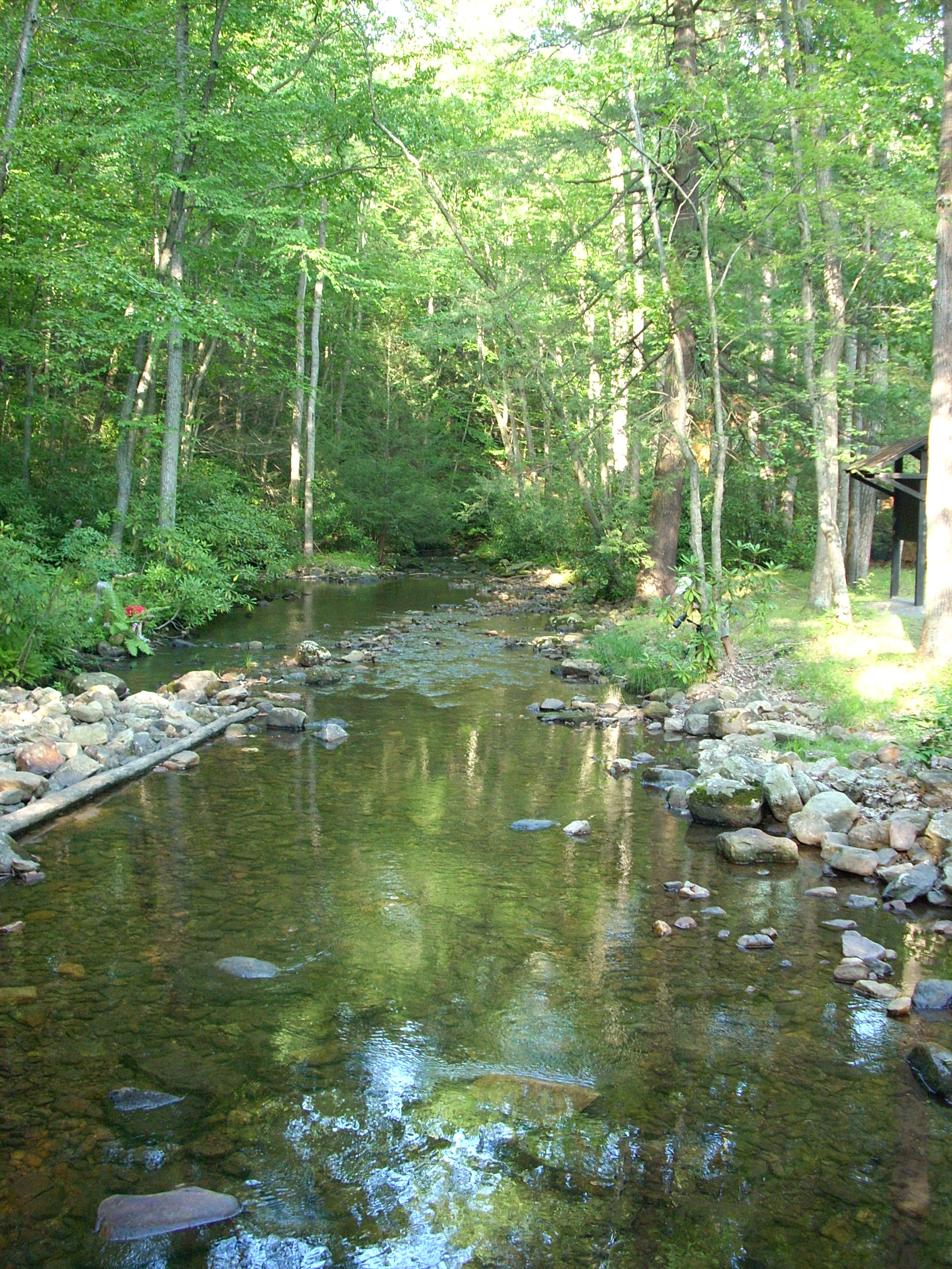 A visitor to Sand Bridge State Park is taking photos of Rapid Run